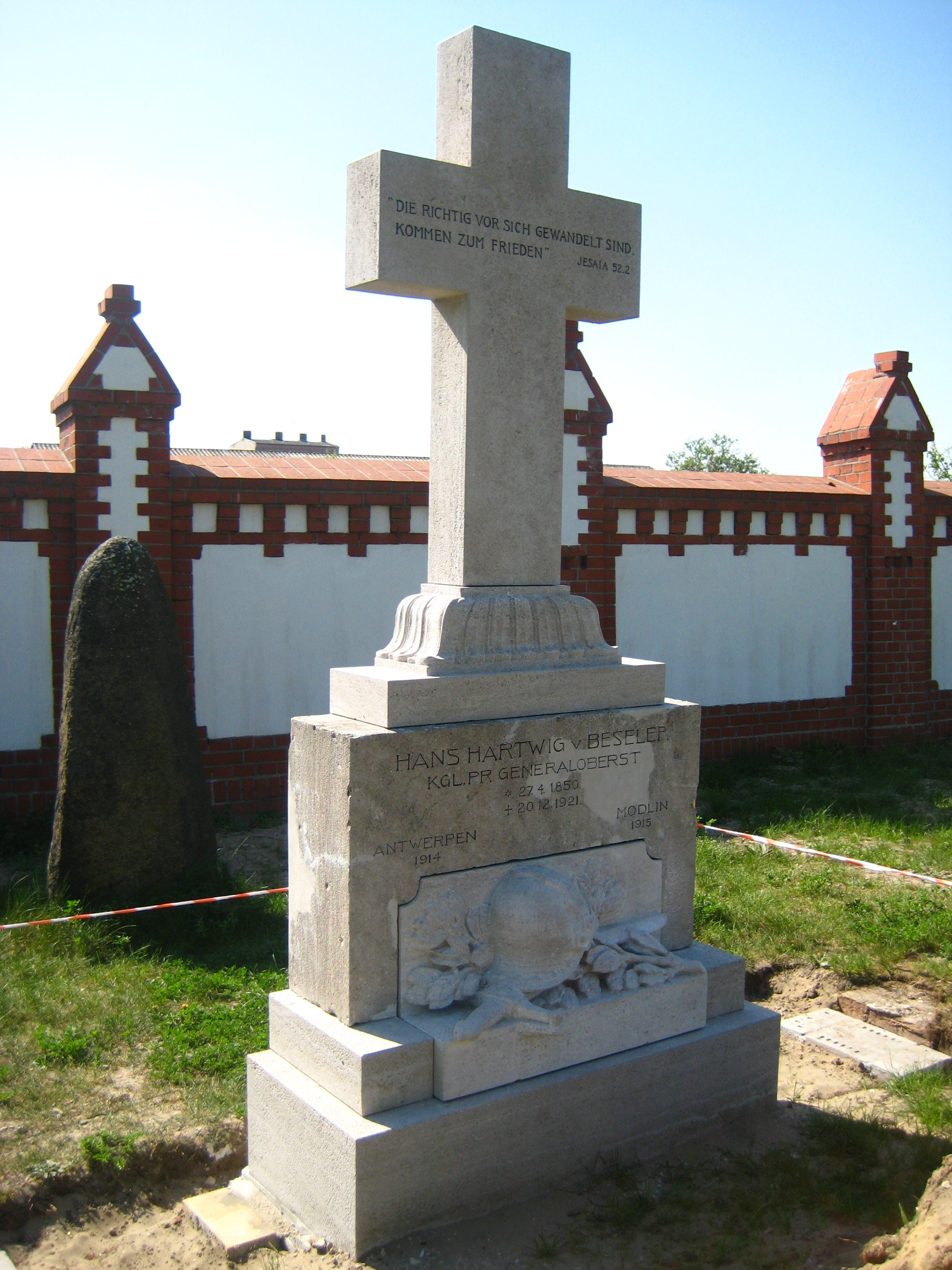 grave of Hans Hartwig von Beseler (1850-1921) on Invalidenfriedhof cemetery in Berlin